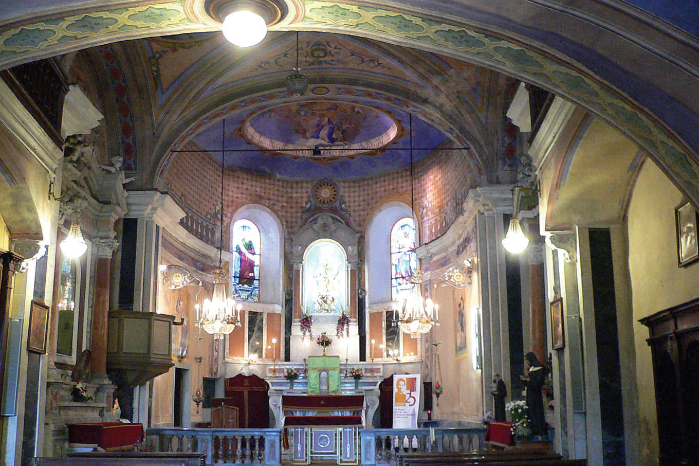 View of the Santa Maria del Borgo Church in Lanzo Torinese (TO) - ITALY